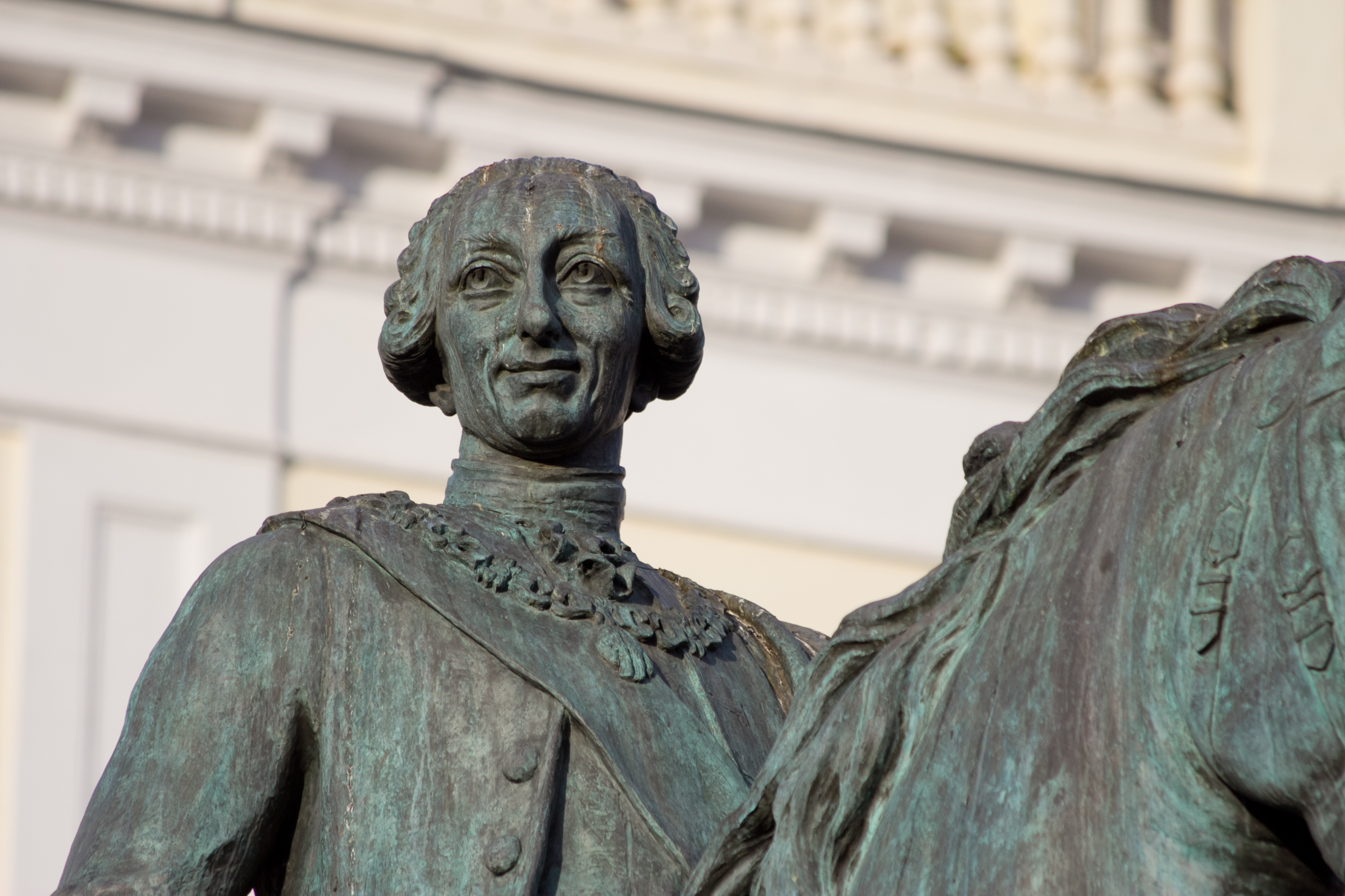 Statue of Charles III of Spain, Madrid, Spain.